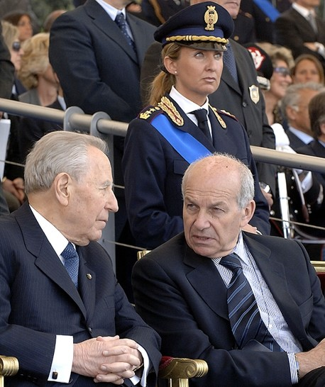 Il presidente della Camera dei Deputati Fausto Bertinotti partecipa con il Capo dello Stato Carlo Azelio Ciampi alla festa della Polizia il 5 maggio 2006